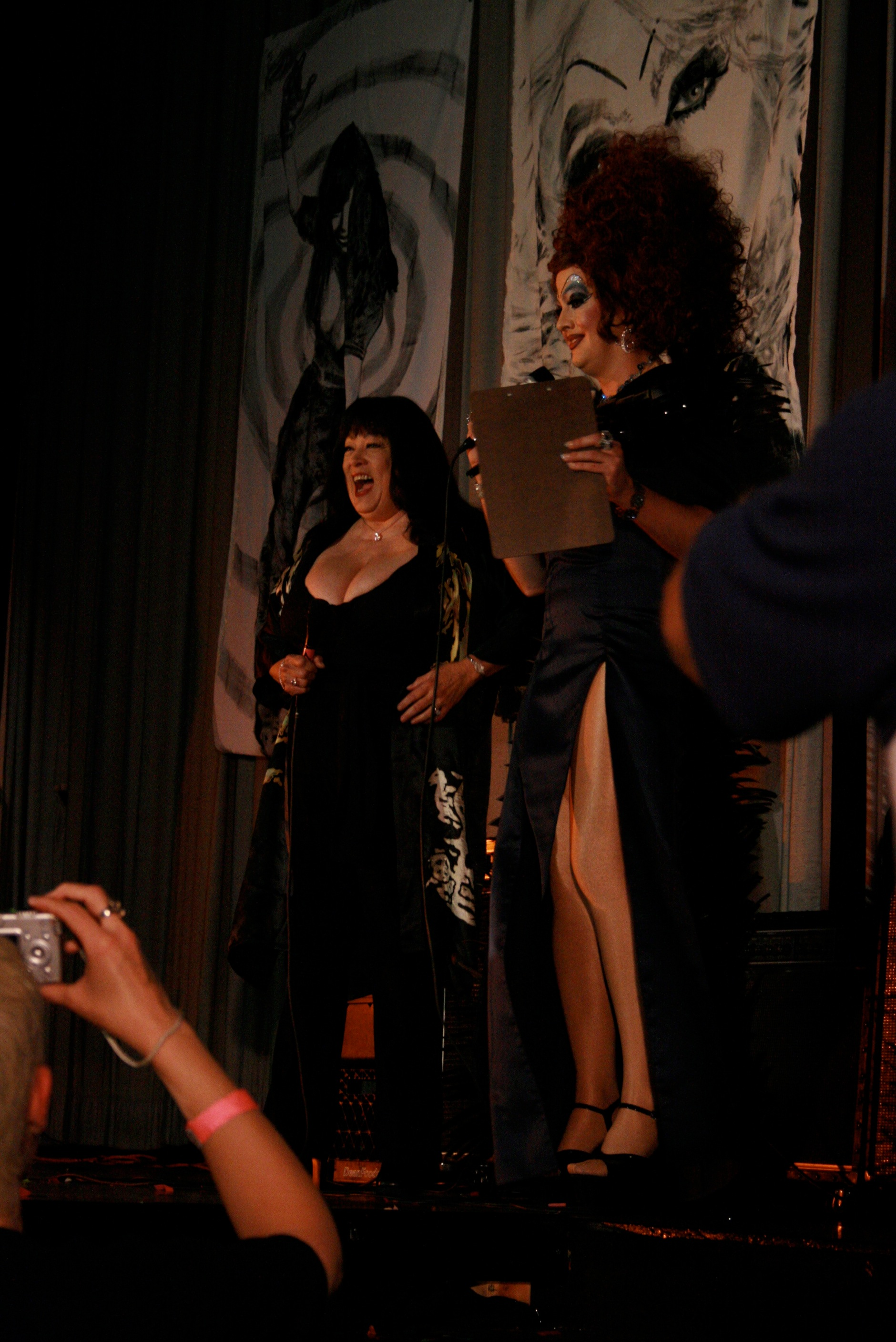 Tura Satana appearing on Peaches Christ's Midnight Mass show, 14 July 2007